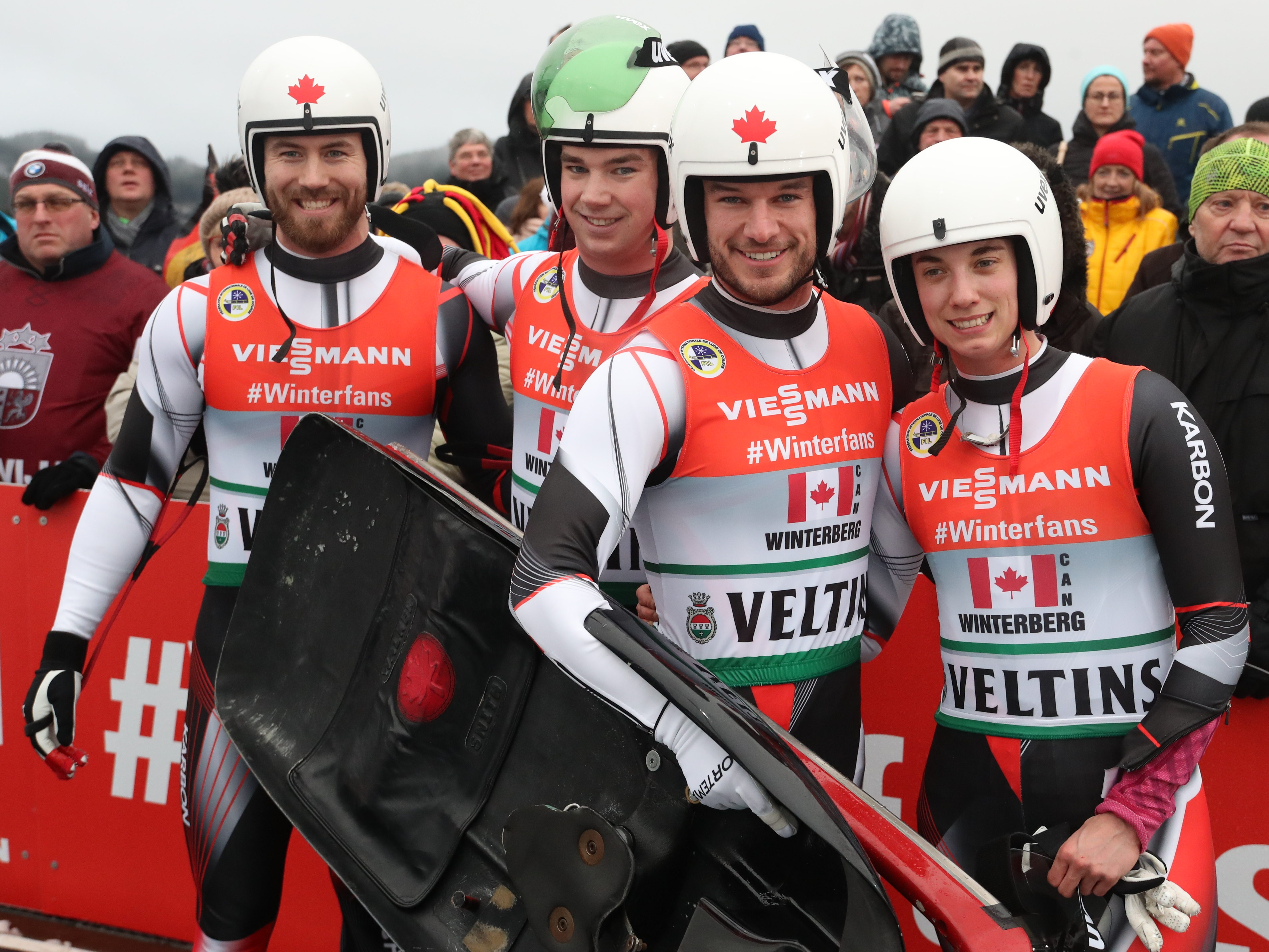 Team Relay at the FIL World Luge Championships 2019 in Winterberg